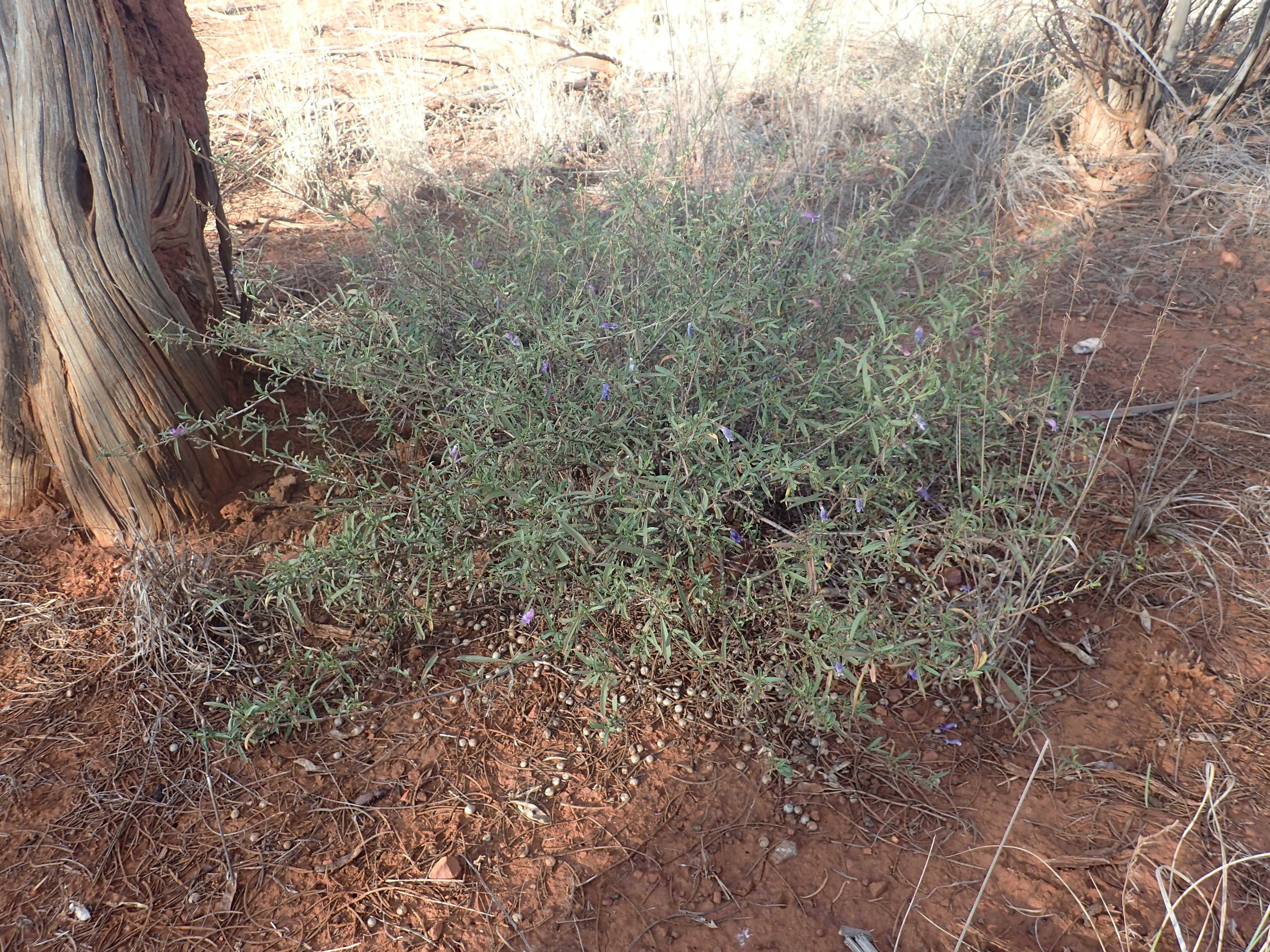 Eremophila lanceolata growing about 5 km south along the track to "Prairie Downs"